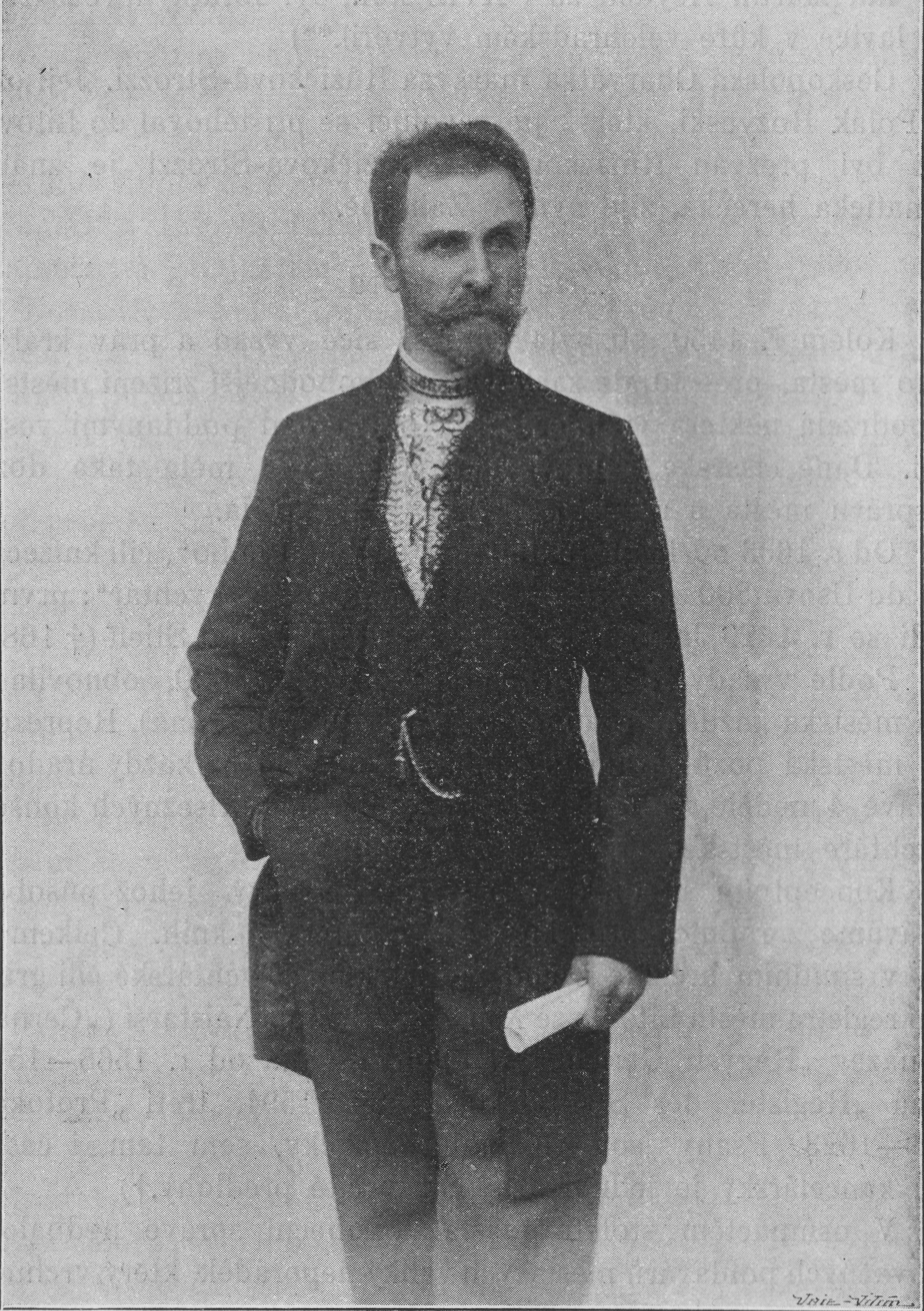 Václav Socha, the first Czech mayor of Litovel.